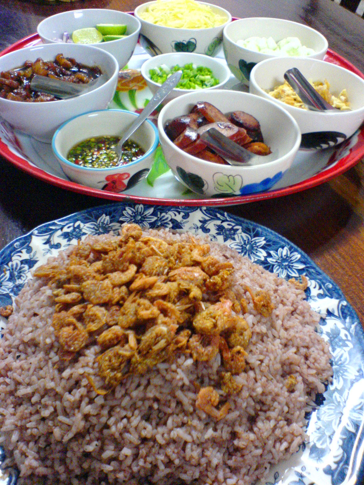 Khao-kluke-kapi is a fried rice dish made with dried (shrimp paste) and rice in Thai cuisine. The side dishes are lemon, mango, fried egg, chilly, red onion, cucumber and sweet fried pork in the picture.